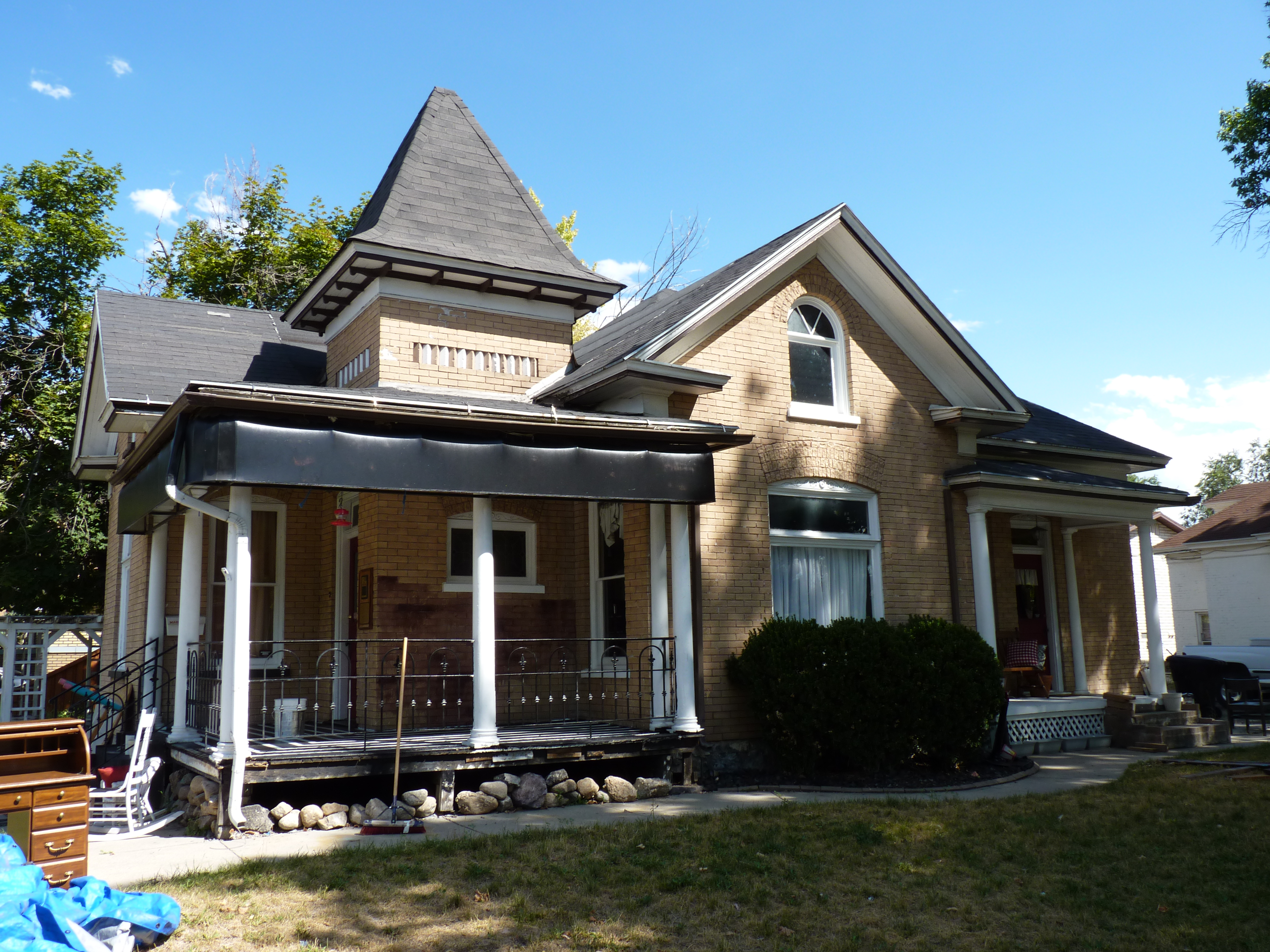 The George Angus and Martha Ansil Beebe House is located at 489 West 100 South. This home is a Provo Historic Landmark, and is also listed on the NRHP.